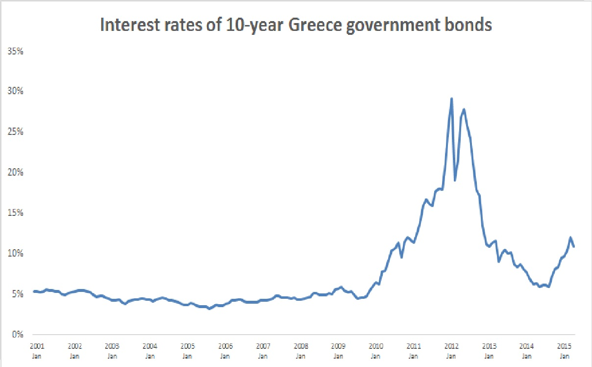 Interest rates on 10 year Greece government bonds Interest rate statistics (2004 EU Member States & ACCBs); Frequency: Monthly; Interest rate type: Long-term interest rate for convergence purposes; Transaction type: Debt security issued; Maturity category: 10 years; BS counterpart sector: Unspecified counterpart sector; Currency of transaction: Euro; IR business coverage: New business; Interest rate type (fix/var). The content of this graph allows a reader to see the dynamics of the pricing of the government bonds over a long period of time. It is intended to be used solely for education purposes in the context of the article about Greek government-debt crisis